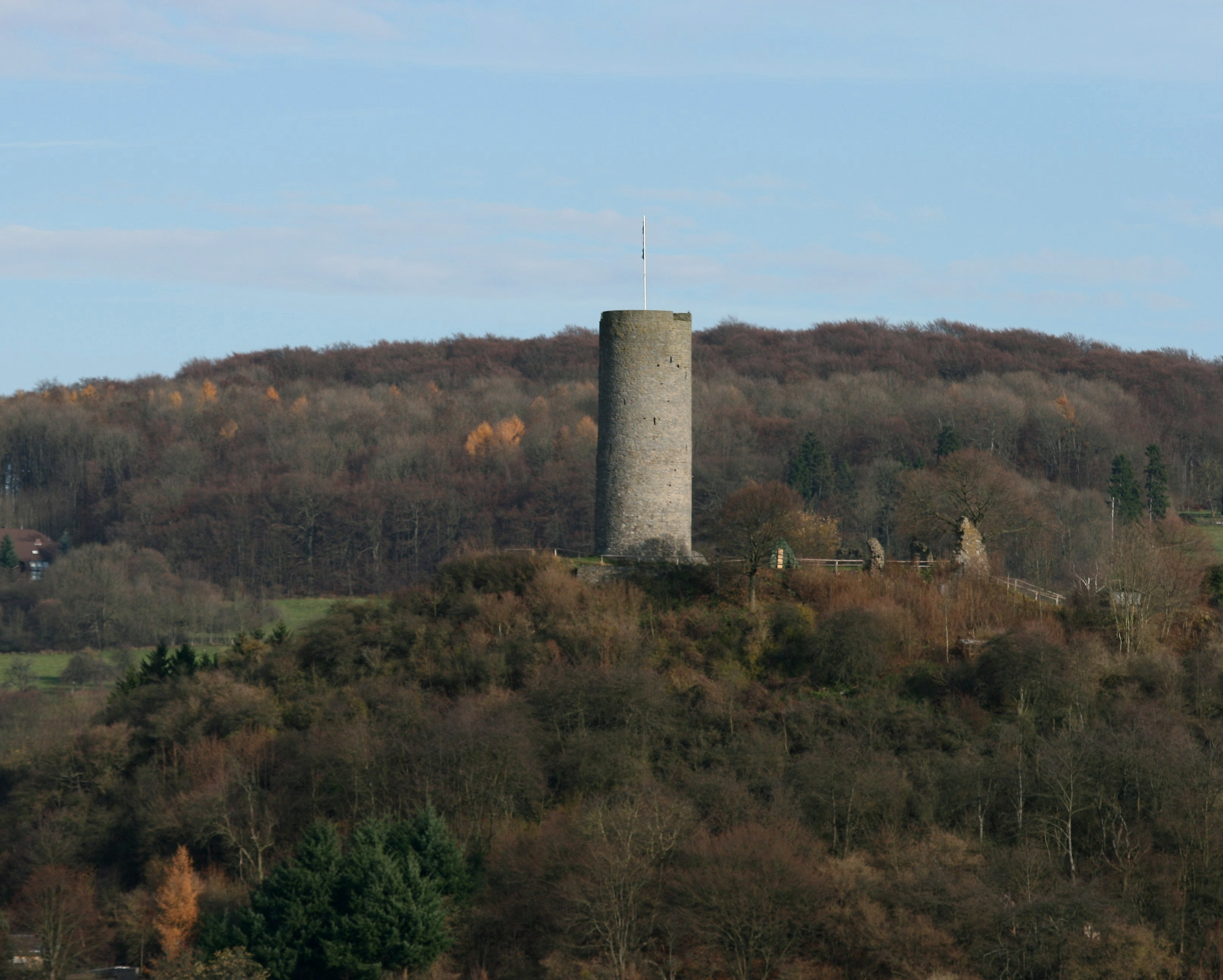 Hartenfels Castle (Germany) as seen from the South